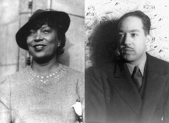 Zora Neale Hurston, American author.